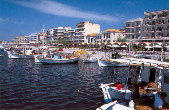 Kalamata Greece, Taken July 2006, kalamata.gr